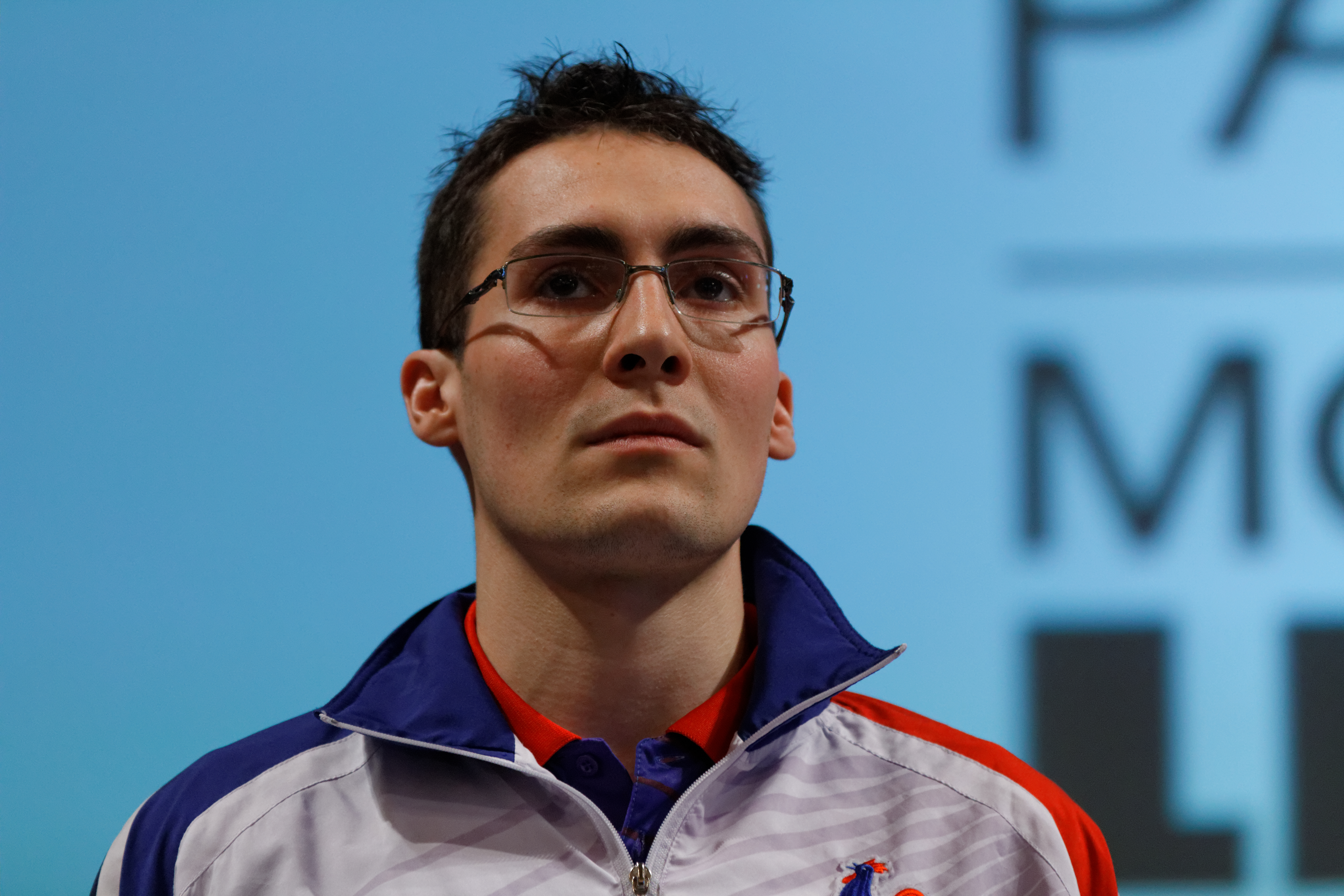 Adrien Mattenet. Championnats du monde de tennis de table, Paris. Conférence de presse et tirage au sort.